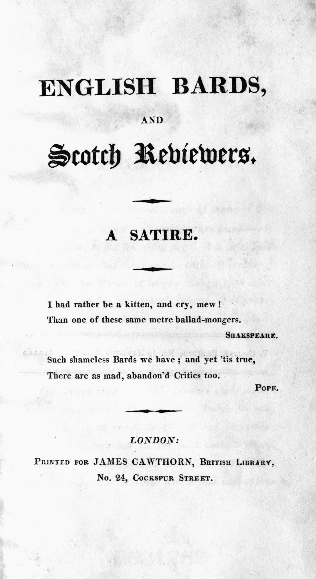 English Bards and Scotch Reviewers 1st ed title pg